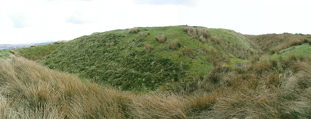 Penlle'r Castell settlement, Betws Mountain. A Medieval settlement surrounded by ditch and bank. This protected site is just 2 minutes walk from the roadside, yet no one passing would even know it existed.